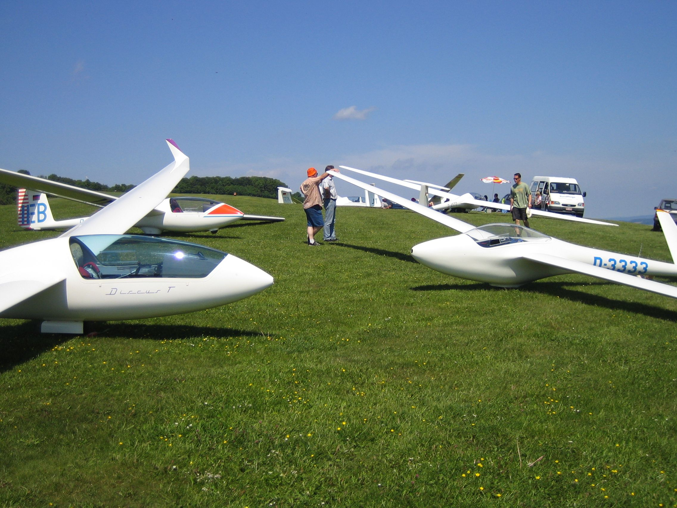 Gliders on ithwiesen airfield, ith, germany